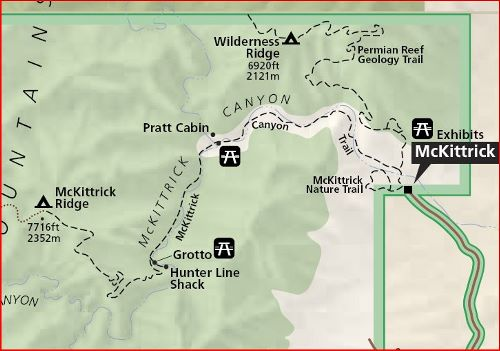 A map showing the hiking trail to McKittrick Canyon in Guadalupe National Park, Texas